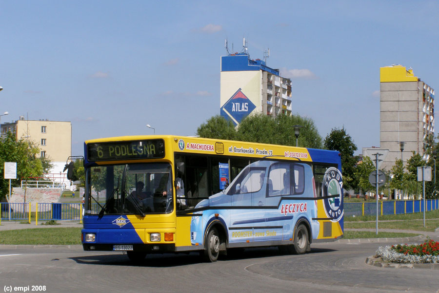 MAN NM192 bus (reg. ES 13022) in Skierniewice, Poland. Built 1995, MZK Skierniewice operator.